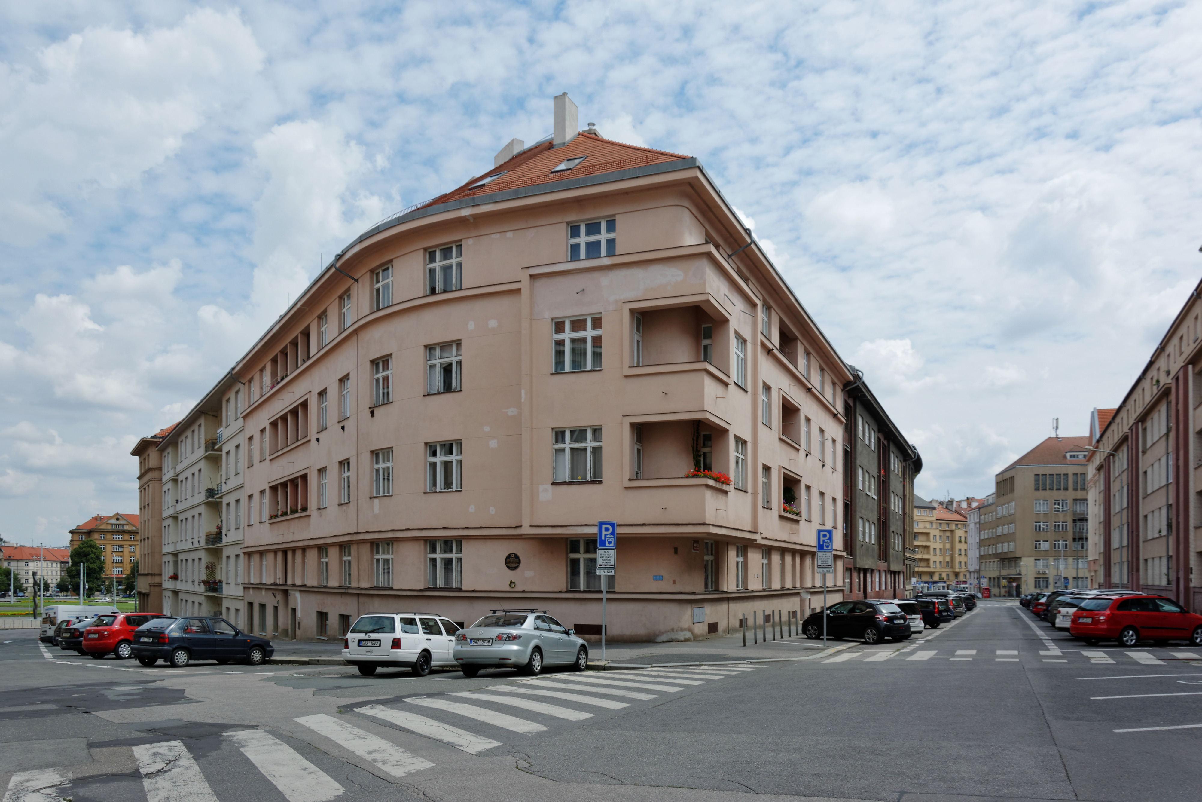 Memorial plaque to Božena Kropáčková, Prague, Buzulucká 678/6.